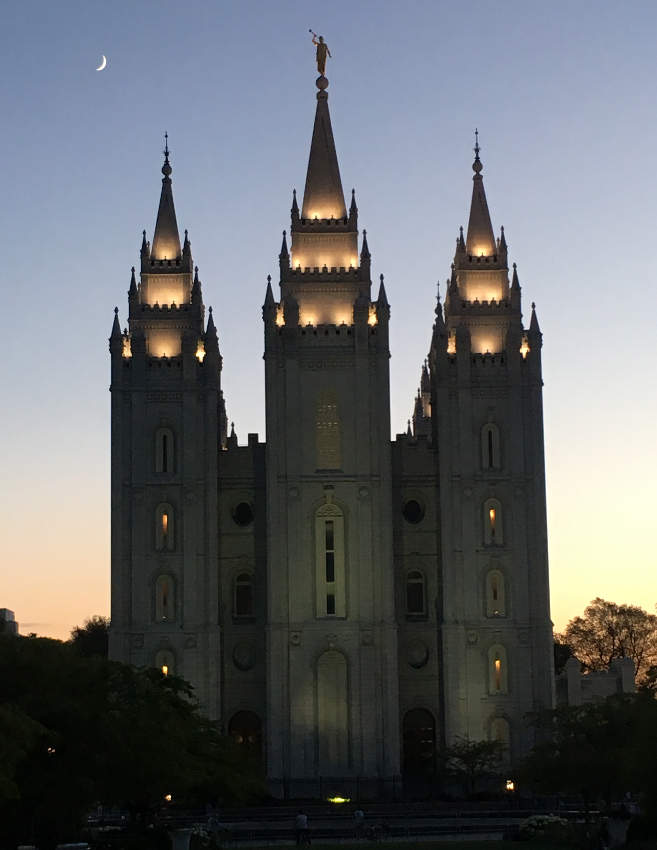 Salt Lake Temple, eastern side, at dusk with crescent moon.